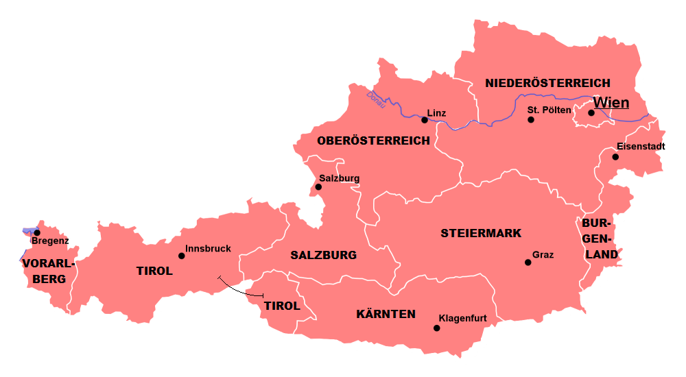 Map of Austria with Länder and their capital cities